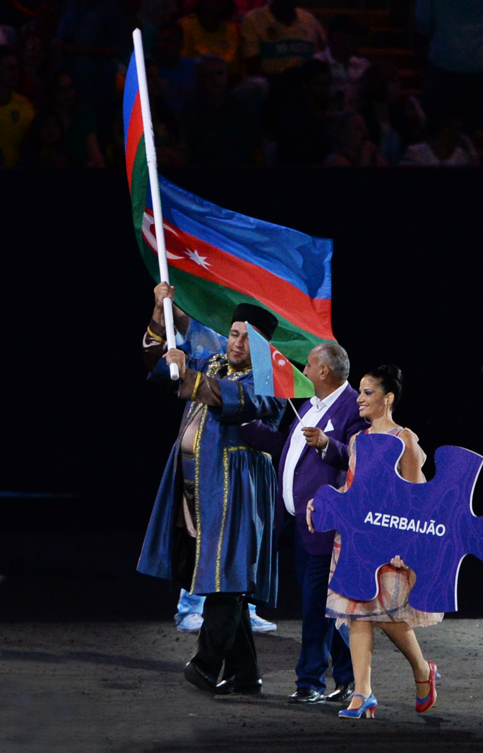 2016 Summer Paralympics opening ceremony